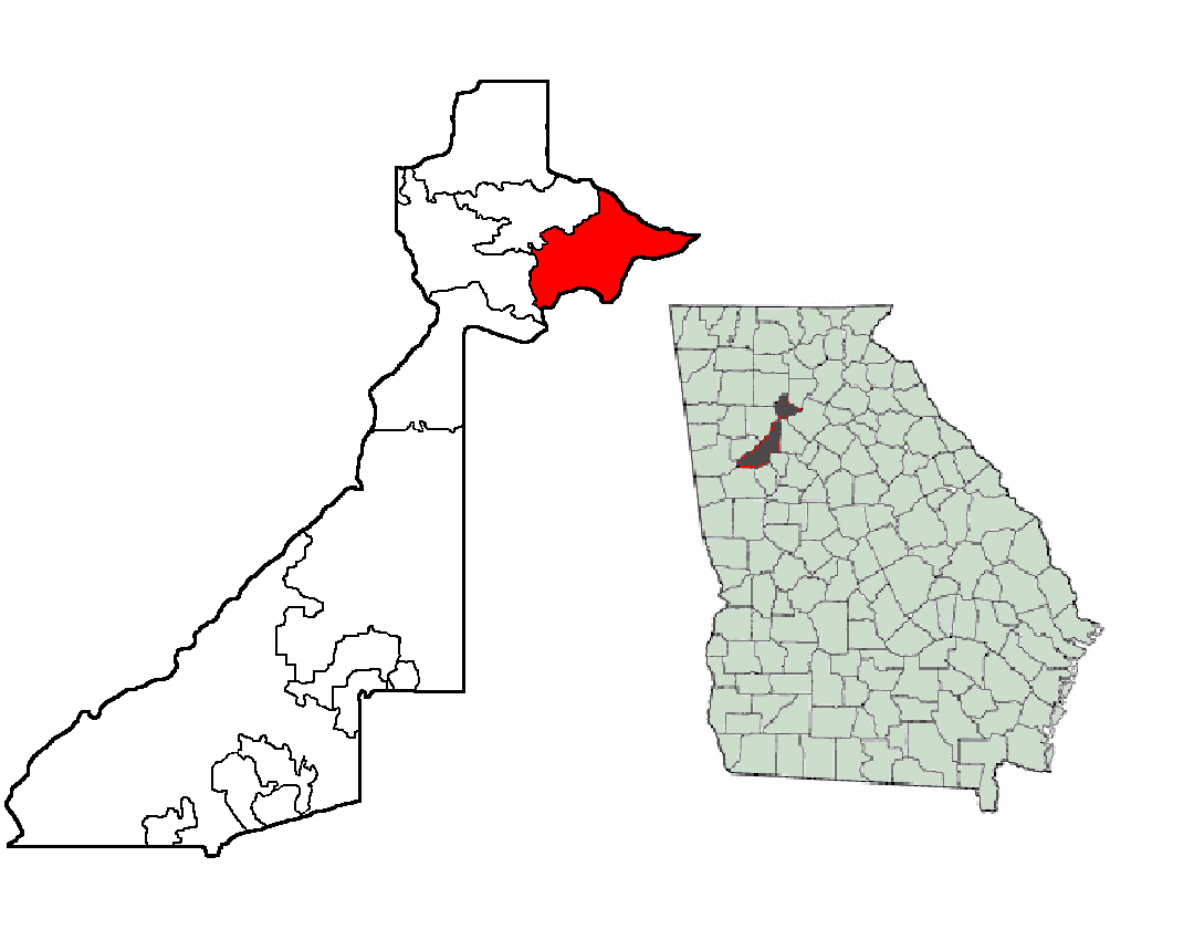 Map of Fulton County, Georgia highlighting City of Johns Creek.